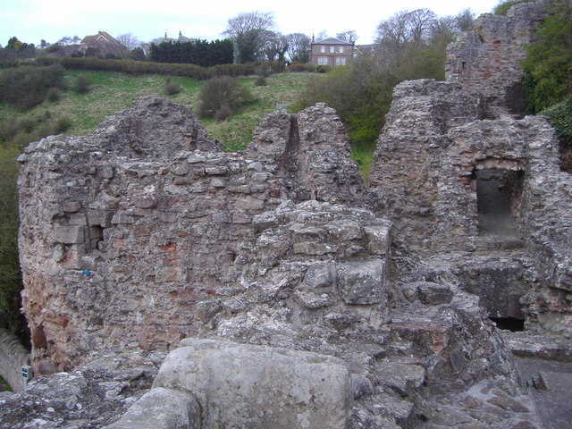 Berwick Castle Not much remains today of the castle founded by David I in the twelfth century.